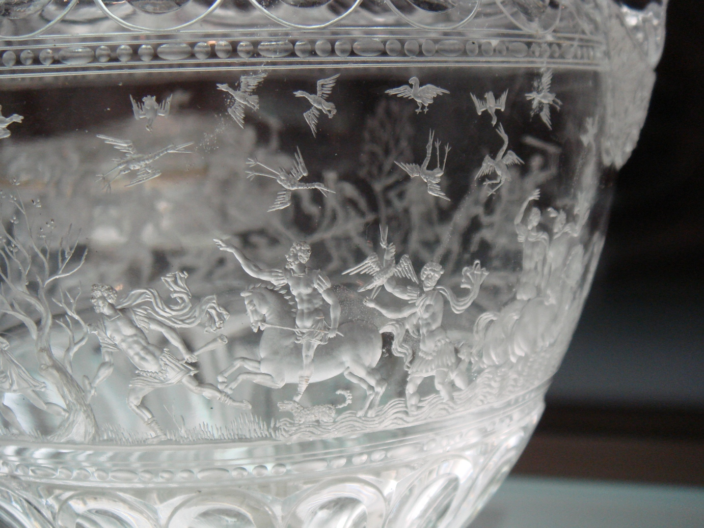 Detail of the so-called Hunt Vessel. Made in Milan with rock crystal and precious and semi-precious stones between 1550 and 1575. It's part of the Dauphin’s Treasure.